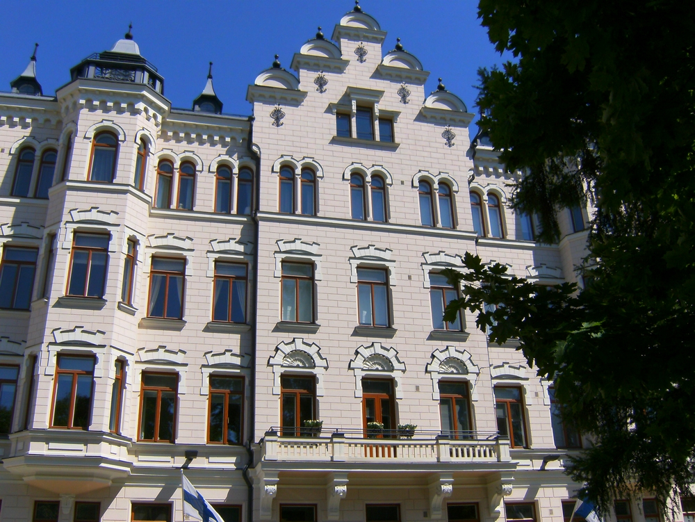 Yrjönkatu 11, Helsinki, Finland